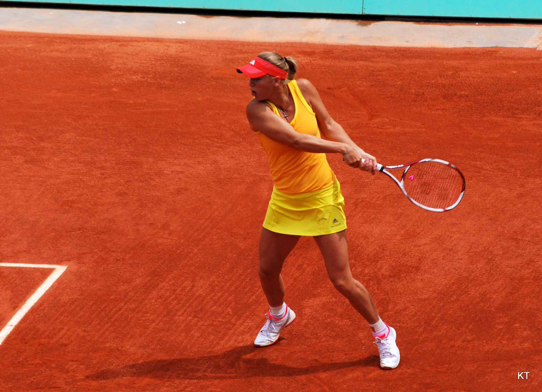 Caroline Wozniacki during her 2nd round match with Jarmila Gajdosova. Wozniacki won 6-1, 6-4. Day 5 of Roland Garros 2012.